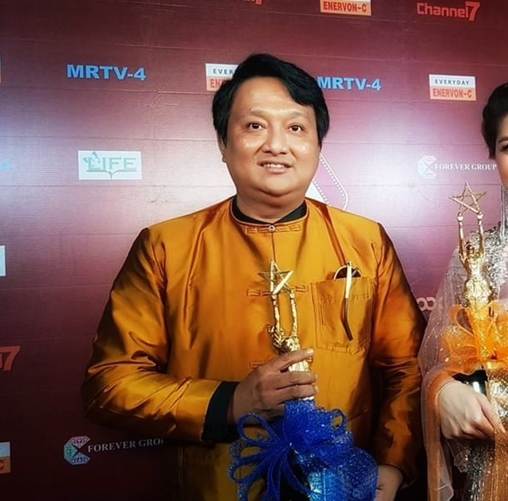 Wyne is a famous and four-time Myanmar Academy Award winning film director and former actor.